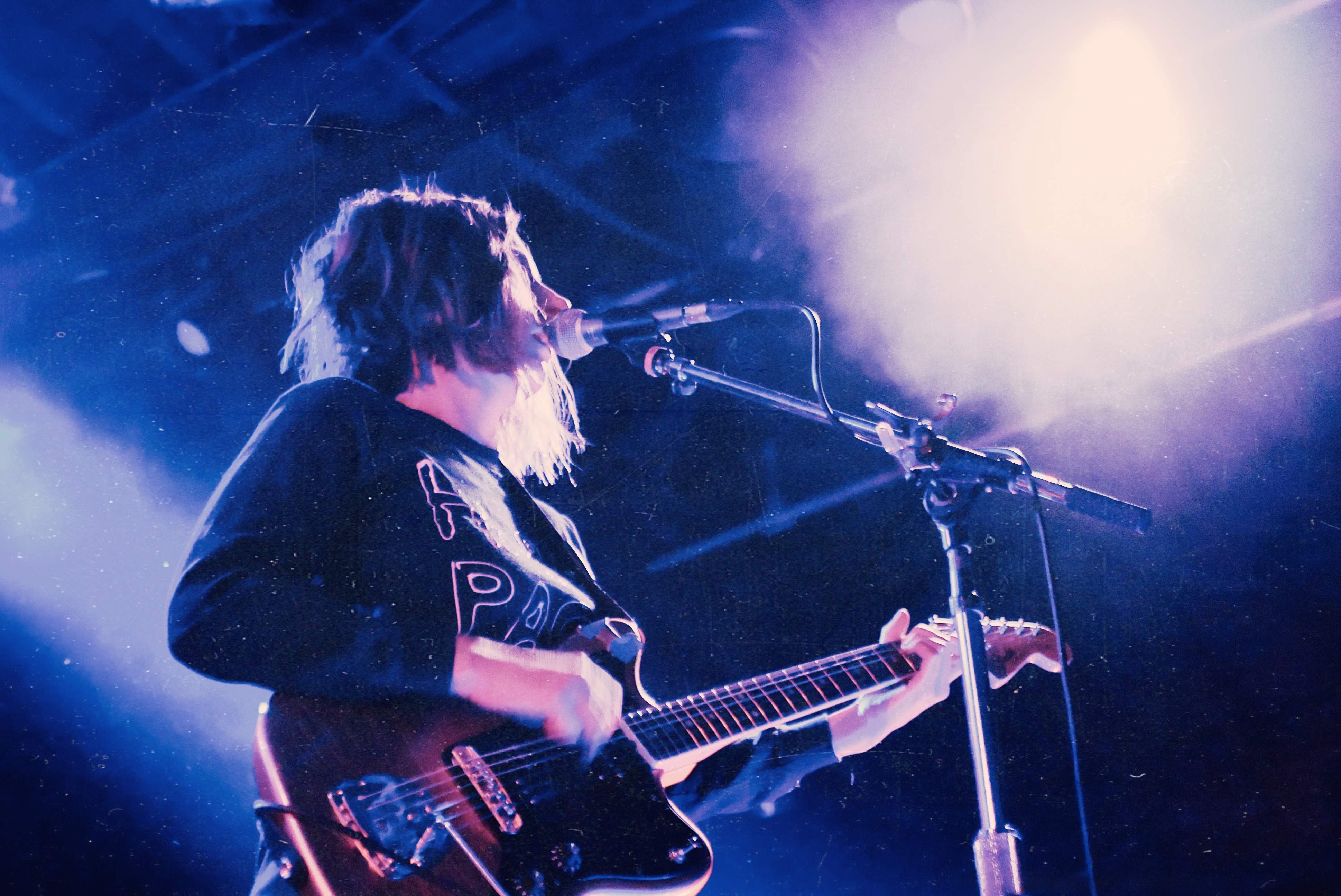 Photograph by Josh Jaffe (@josh_jaffe)